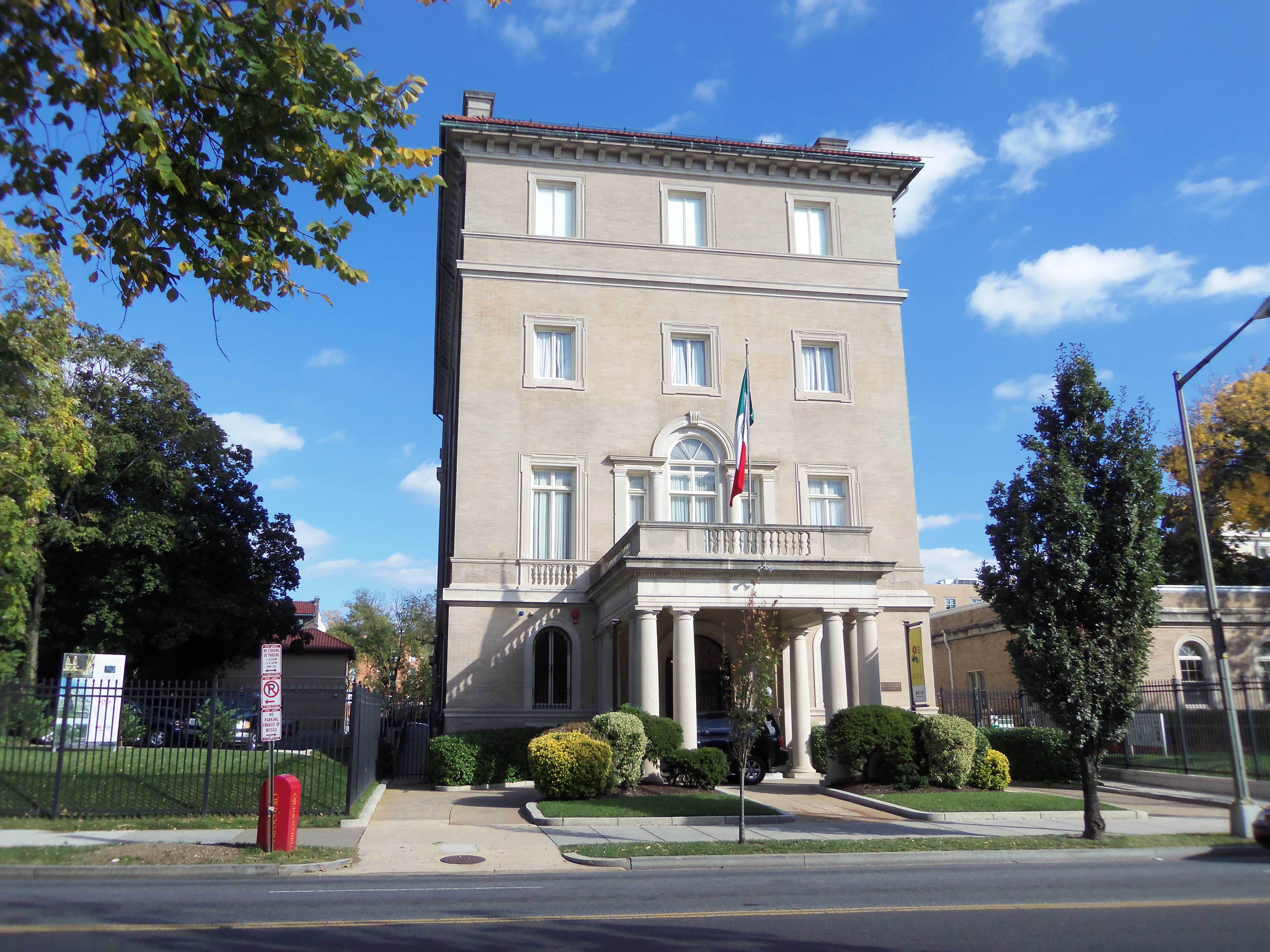 The Mexican Cultural Institute on 16th Street NW, in Washington, DC. The building served as the Mexican Embassy until 1989.